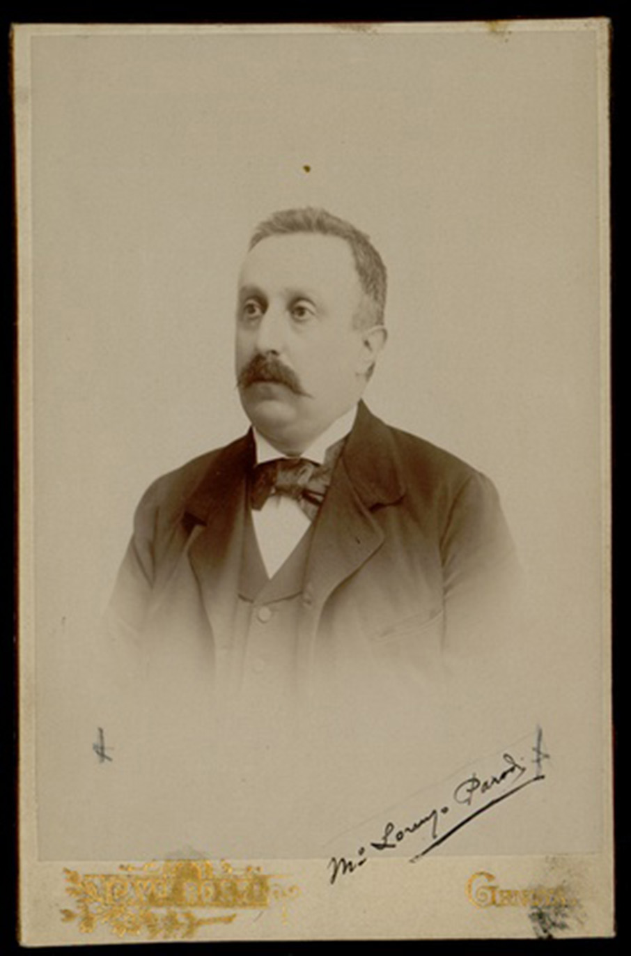 Portrait of Lorenzo Parodi, composer (1856-1926). Photo by Cav. Rossi, before 1926.